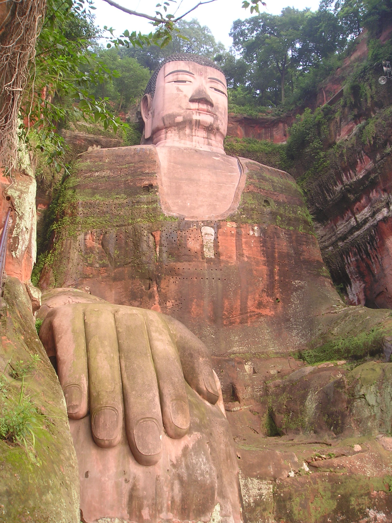 Giant Buddha statue in Leshan, China